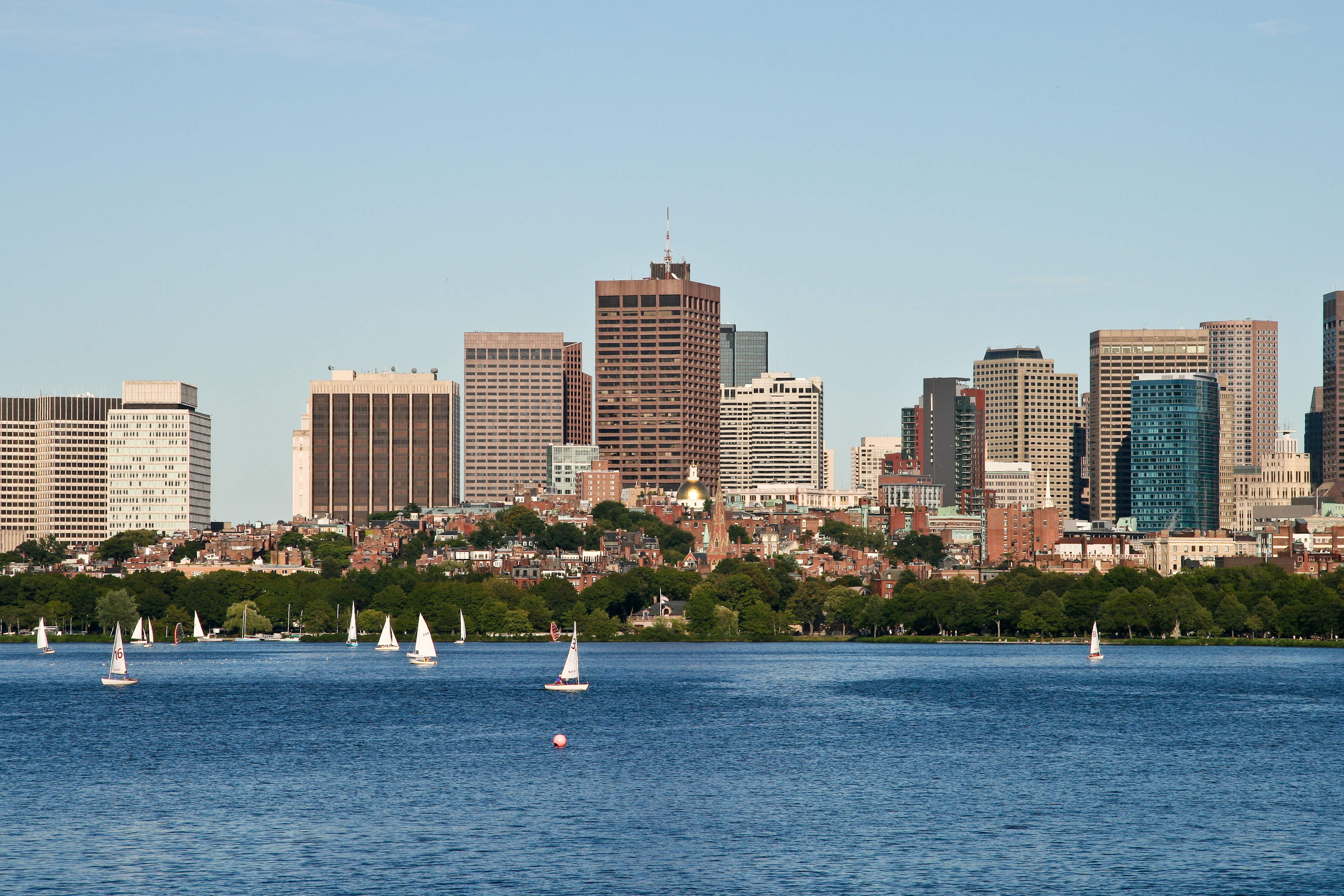 Beacon Hill and the State House from Cambridge. Shot with Canon XTi | EF-S17-85mm f/4-5.6 IS USM @ 85 mm 1/250 sec at f/10 | ISO100 | no flash